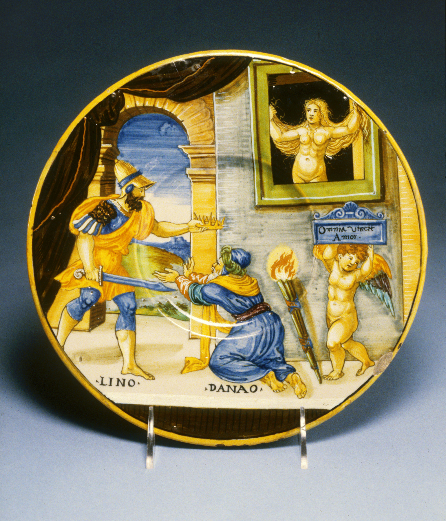 According to Greek myth, a king named Danaus ordered his daughter Hypermnestra to kill her husband Lynceus on their wedding night. Because Lynceus was so kind to her, Hypermnestra instead helped him to flee. Danaus attempted to have his daughter put to death, but the court cleared her. Eventually, Lynceus killed Danaus, ruled in his place (here, he takes the crown), and was reunited with Hypermnestra. The plaque reading "Love conquers all," carried by a cupid, foretells this ending. The ancient subject was obscure, so Xanto Avelli included identifying inscriptions under the two male figures.